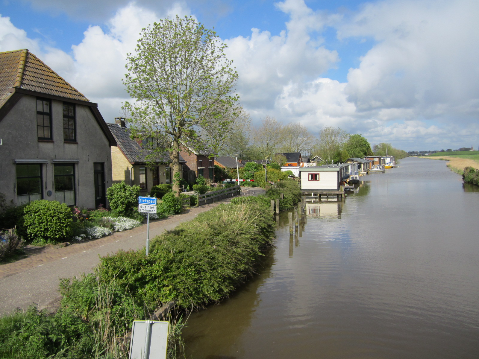 Ritsumazijl, county Friesland, The Netherlands. View to the east on houses and houseboats, north of the canal Zijlsterrak.